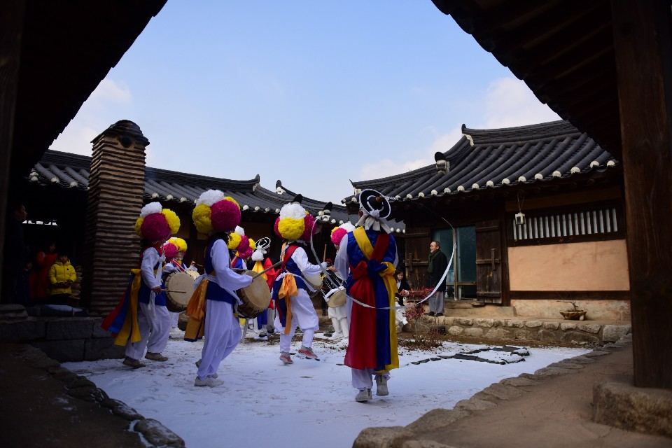 2018.winter.South Korea.Dae-Yami